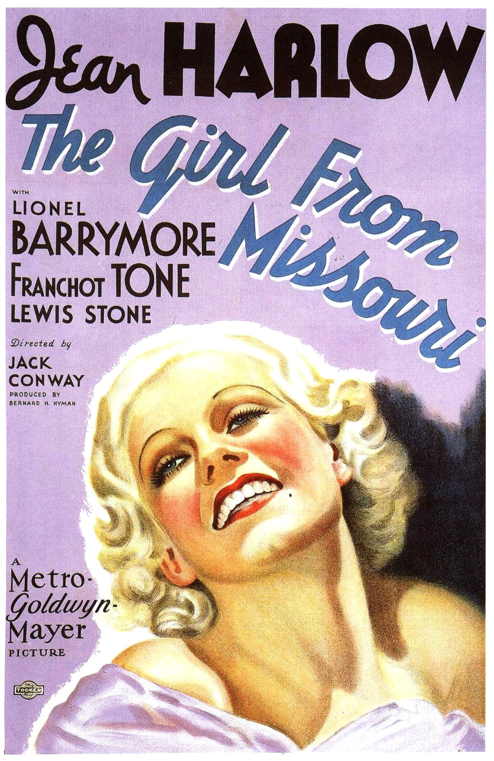 Poster from the 1934 film The Girl From Missouri. The item has no copyright markings on it as can be seen in the links above. At lower left is a logo for Tooker Litho Company-they printed the poster.